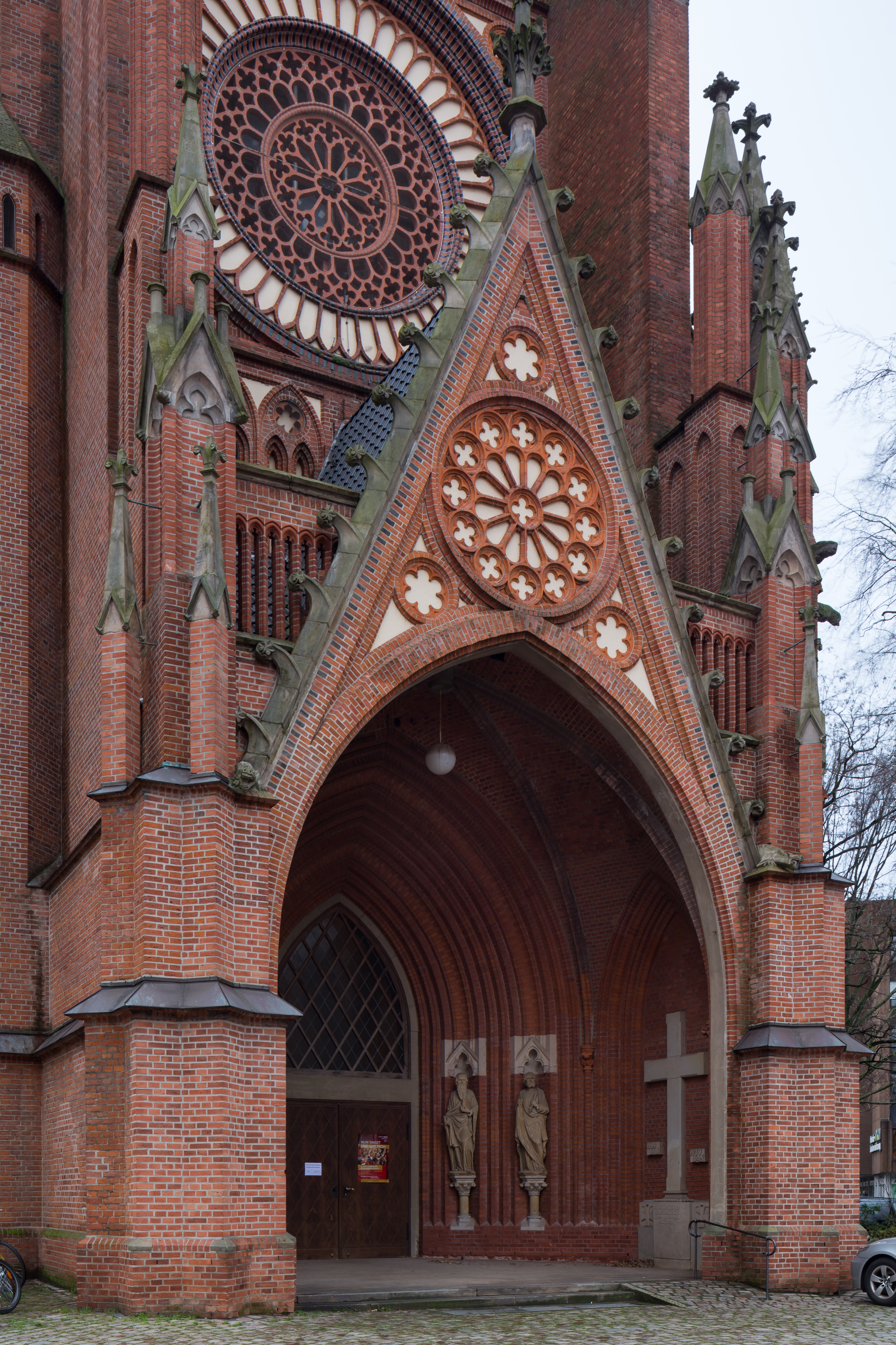 Christuskirche church located at Conrad-Wilhelm-Hase-Platz square in Nordstadt quarter of Hannover, Germany. Entrance facing west.